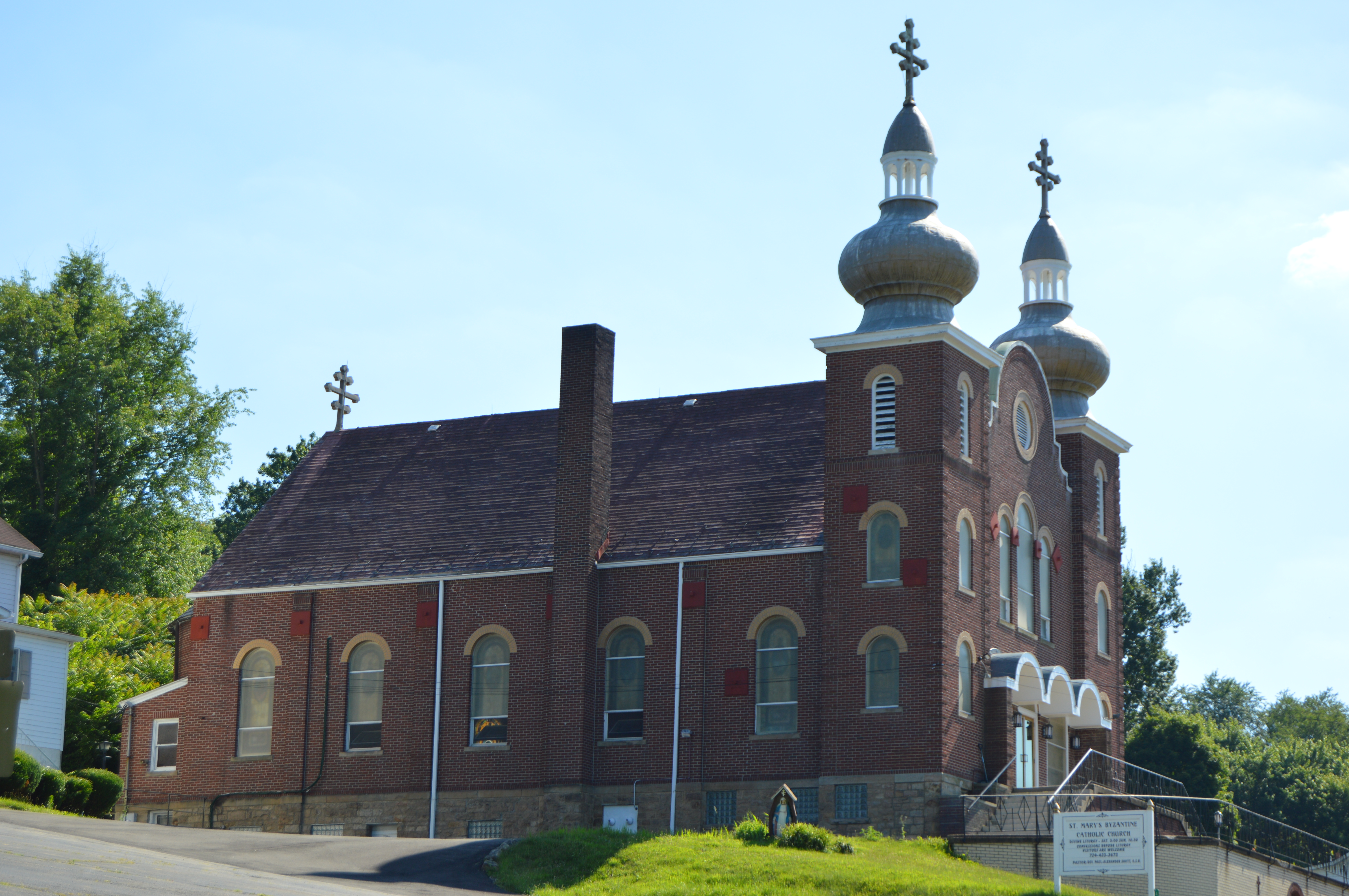 Eastern side and front of St. Mary's Byzantine Catholic Church, located on Pennsylvania Route 981 at Trauger in Mount Pleasant Township, Westmoreland County, Pennsylvania, United States.